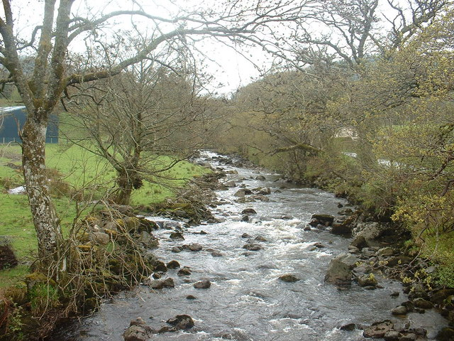 Afon Lliw. Looking upstream, from the bridge carrying the unclassified road.